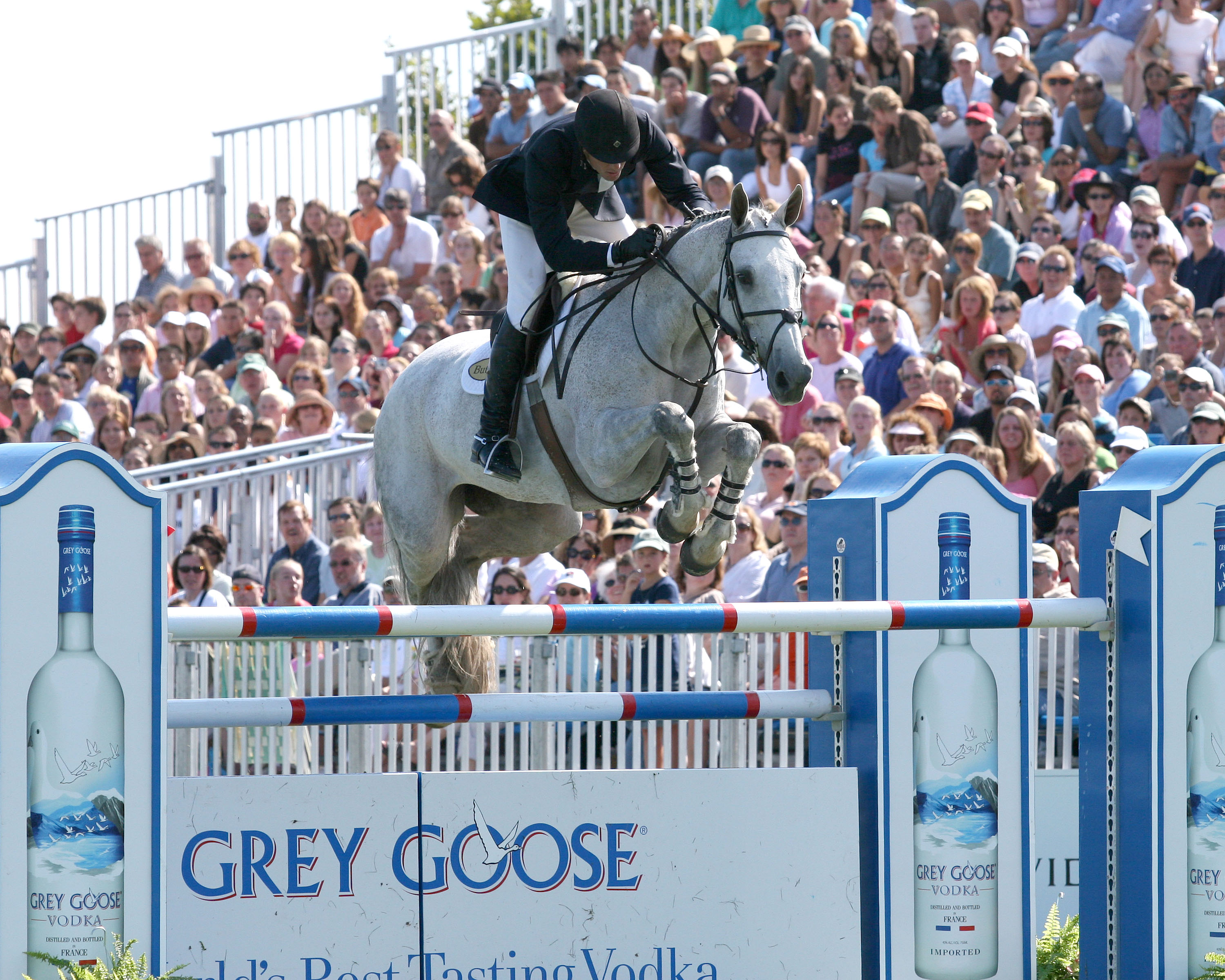 Chris Kappler and VDL Oranta, owned by M & K Oranta Group, competing in the $150,000 Prudential Grand Prix at the 2006 Hampton Classic in Bridgehampton, New York